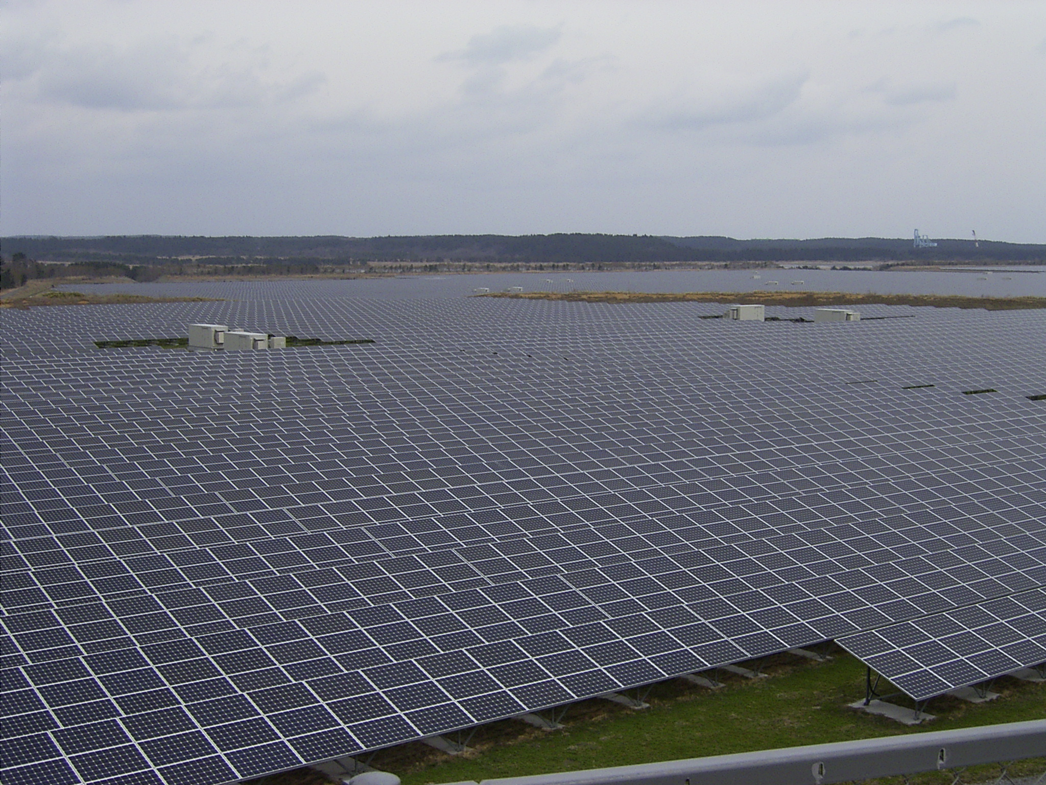 Solar cell battery in Rokkasho Solar Park, Aomori, Japan